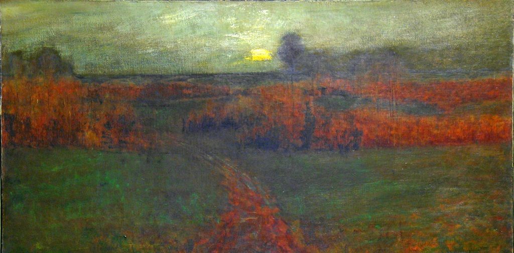 Henry Golden Dearth, "Evening Glow", 1889